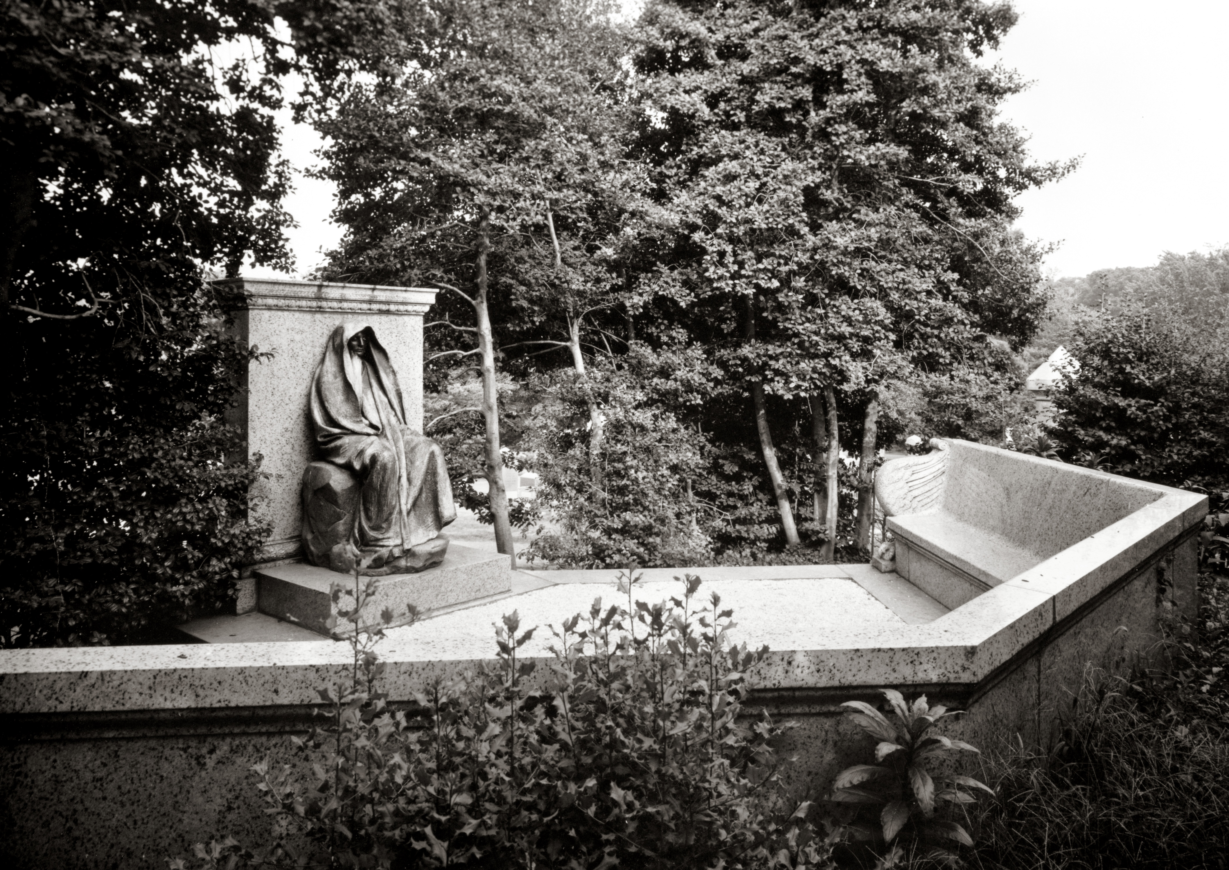 The Adams Memorial located in Rock Creek Cemetery, Washington, D.C.